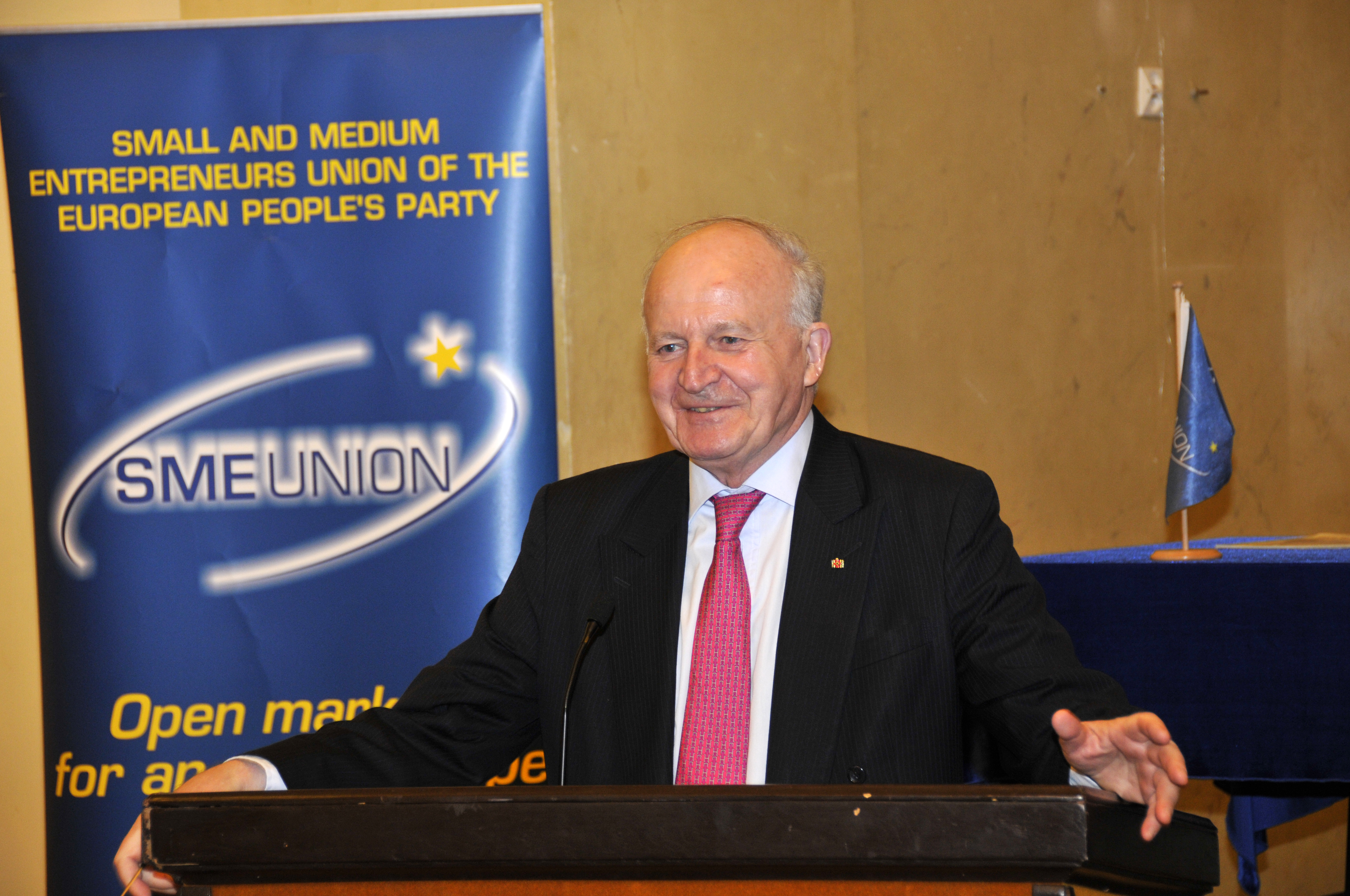 EPP Congress Warsaw